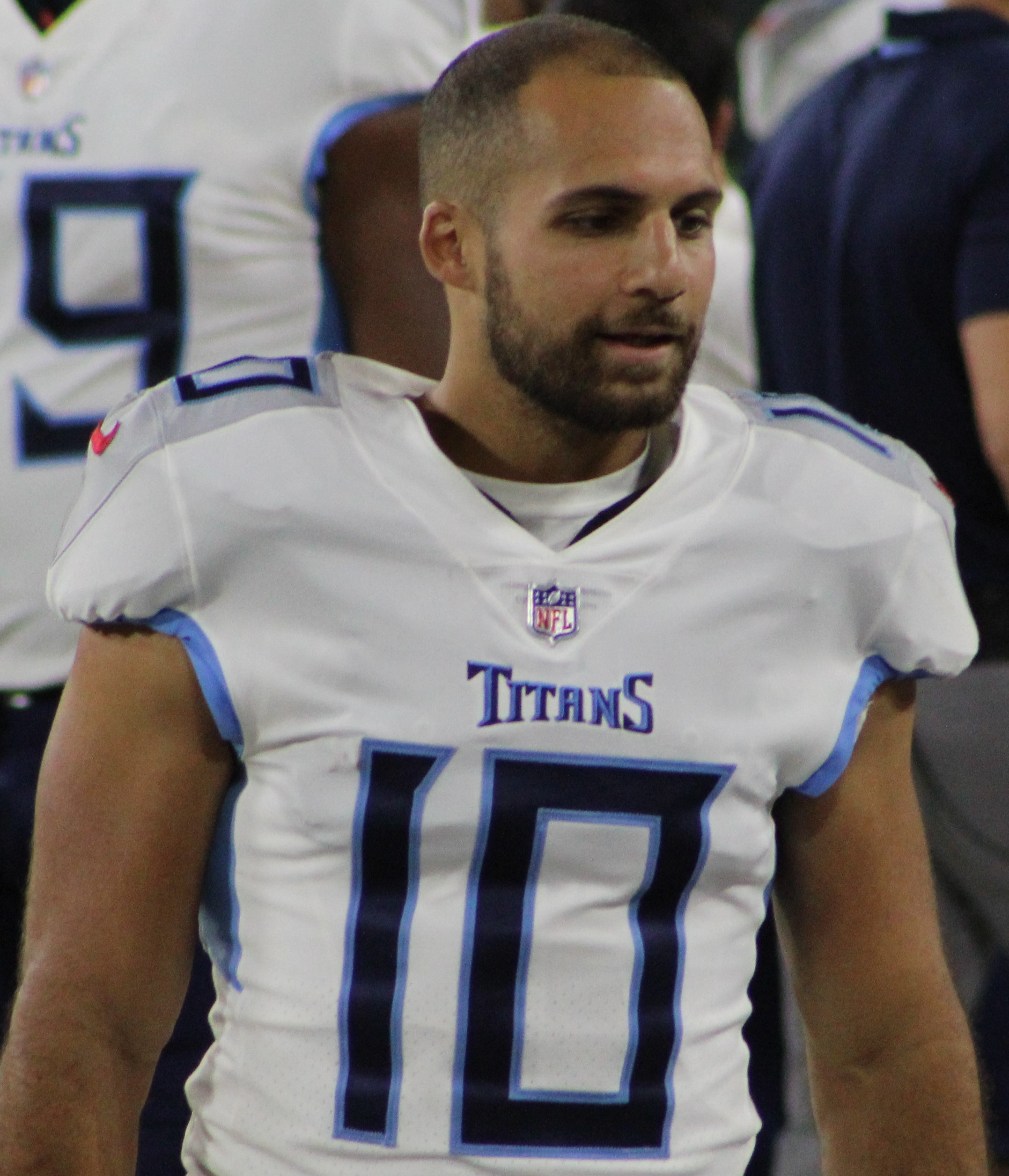 Michael Campanaro, Tennessee Titans at Green Bay Packers (Preseason), August 9, 2018